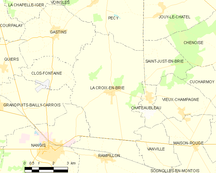 Map of French municipality La Croix-en-Brie